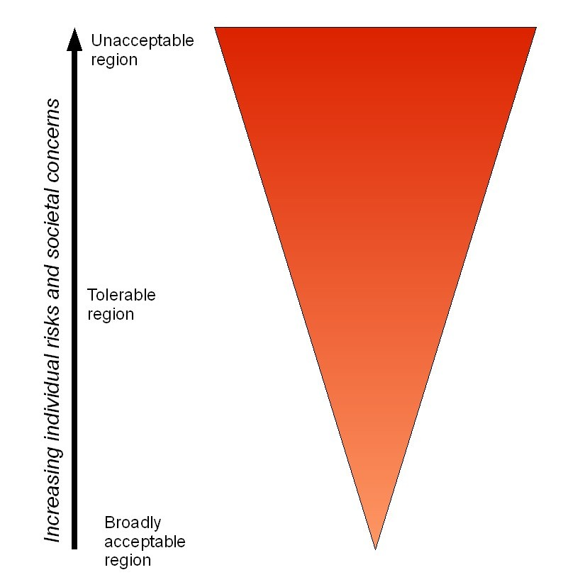 David W. Legg Original work, based upon R2P2 advice from UK Health and Safety Executive (HSE). [1]